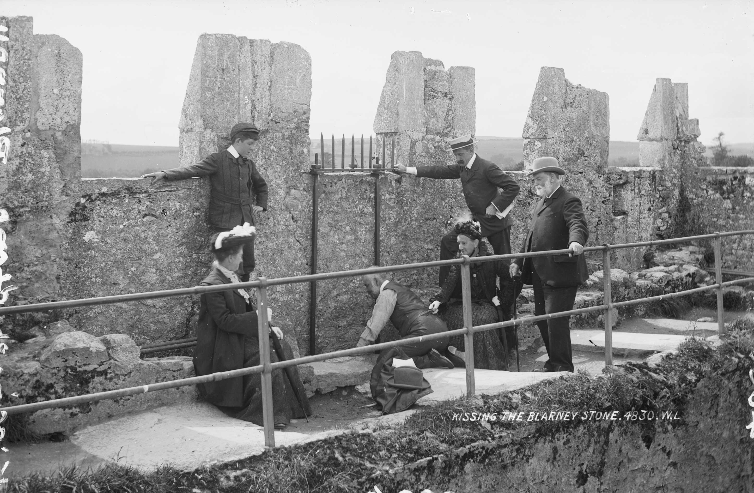 A small group of tourists seeking the alleged eloquence that comes from kissing the Blarney Stone at Blarney Castle in Co. Cork. Date: Circa 1897 NLI Ref.: L_CAB_04830